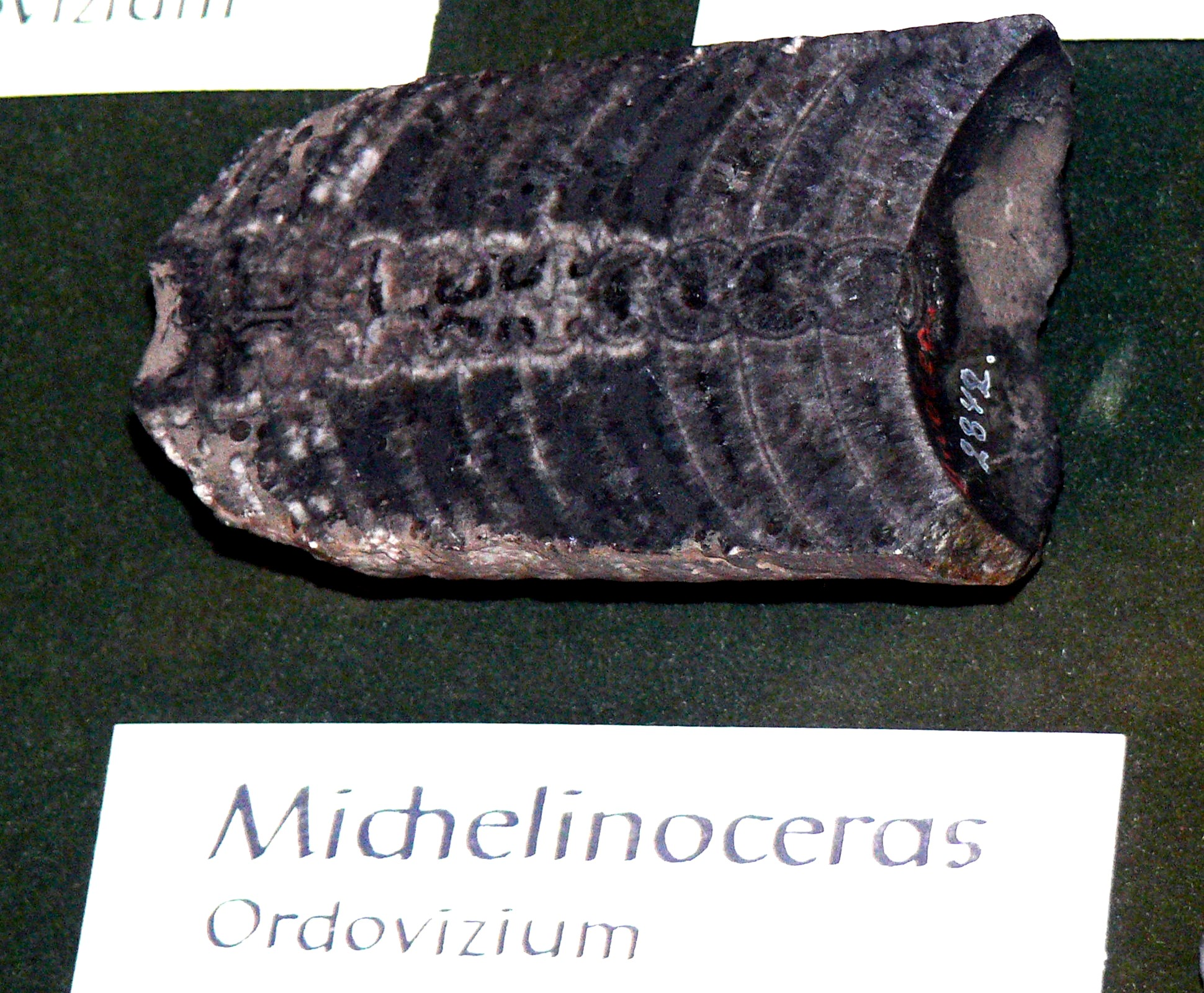 Michelinoceras